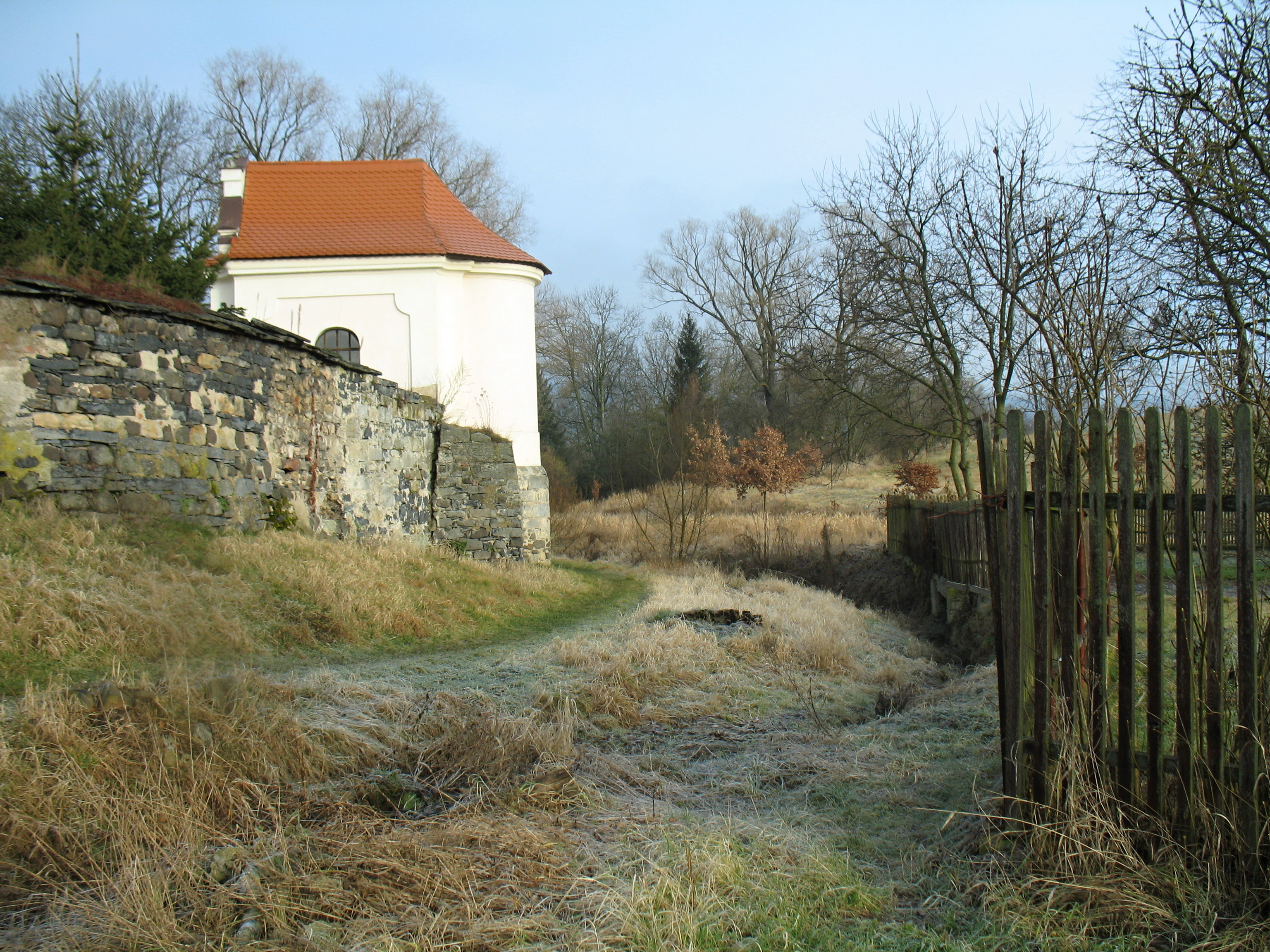 Church of the Nativity of the Virgin Mary in Kravaře, Česká Lípa District, Czech Republic